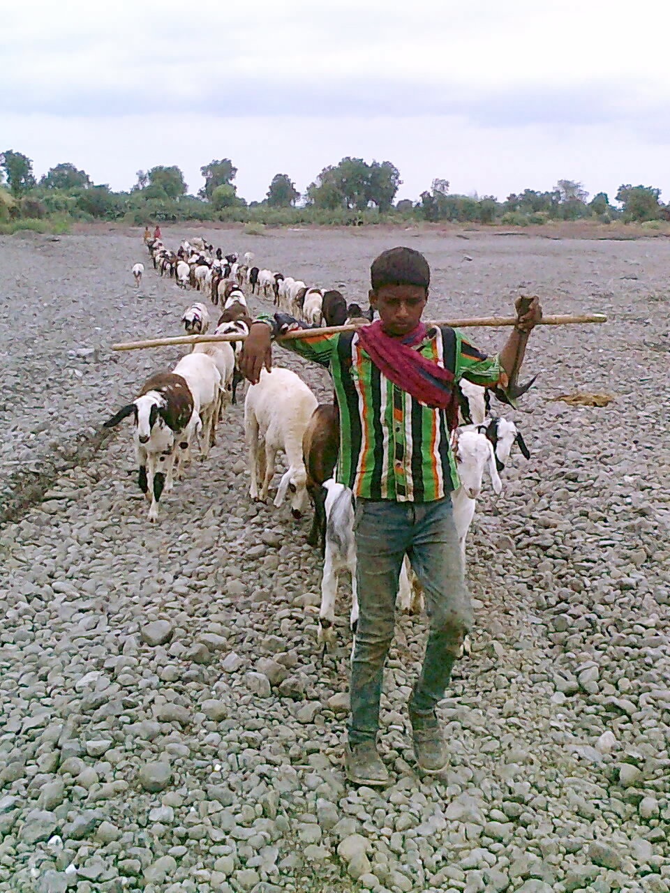 A herdboy with his sheep in the dry bed of Suki river at Chinawal village, India